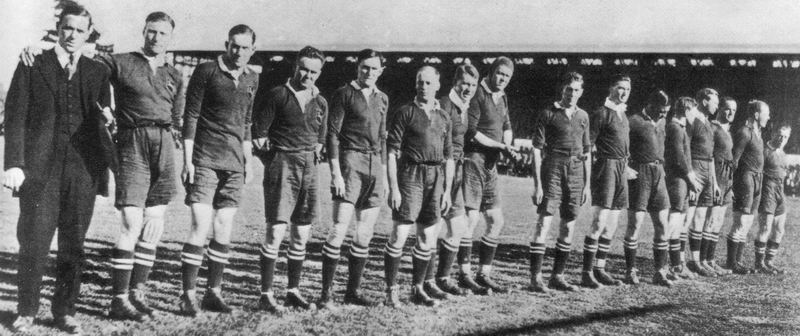 The South Africa rugby union side for their first ever Test match against New Zealand, at Carisbrook, Dunedin, 1921.